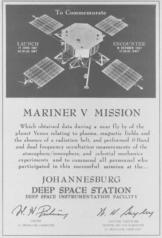 The Mariner 5 commemorative plaque in the foyer of the Control Building.